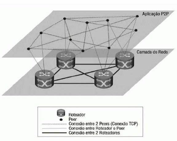 overlay network Reo tahiti: rede sobreposta